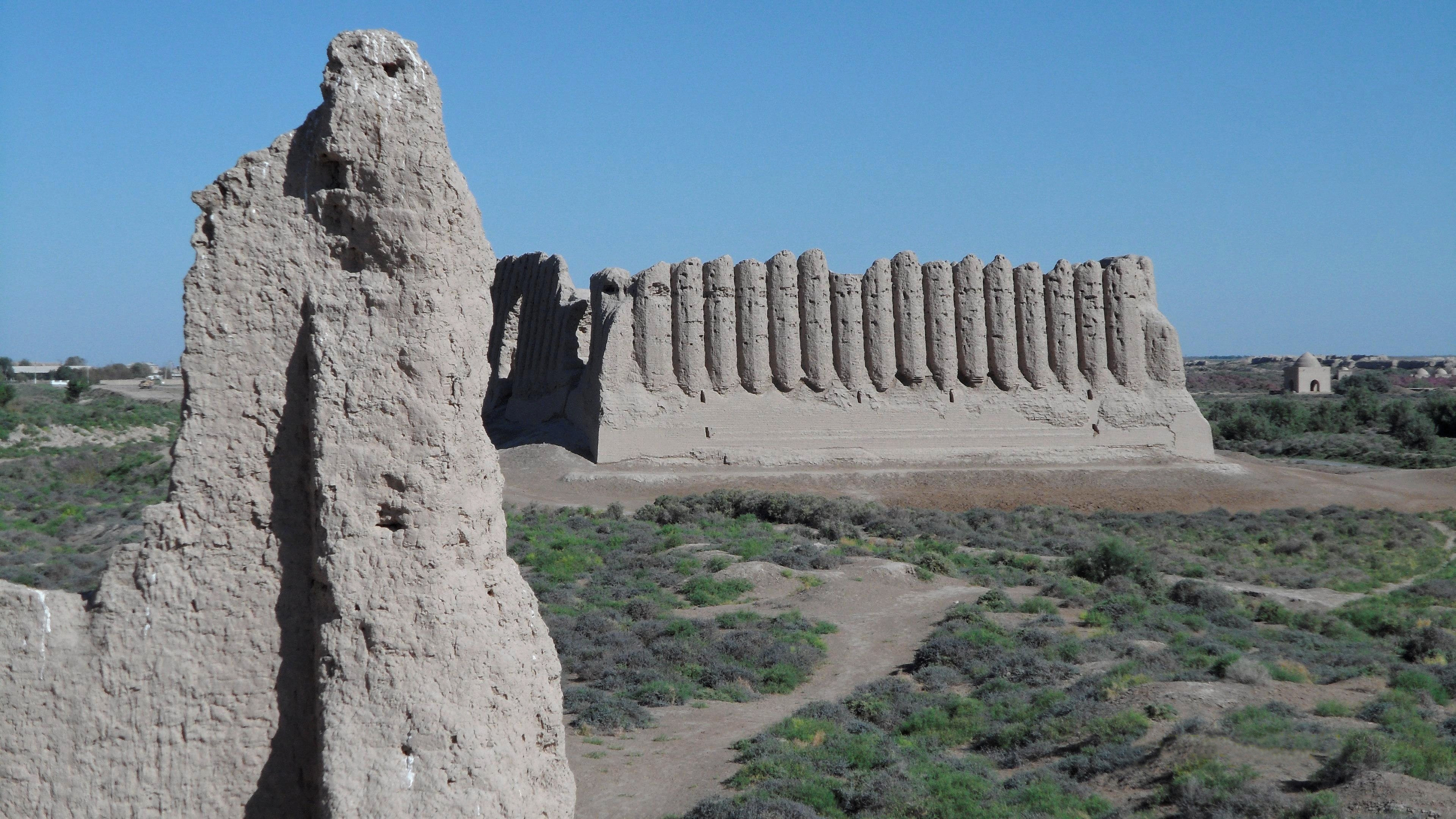 MervTurkmenistan Great Kyz Kala